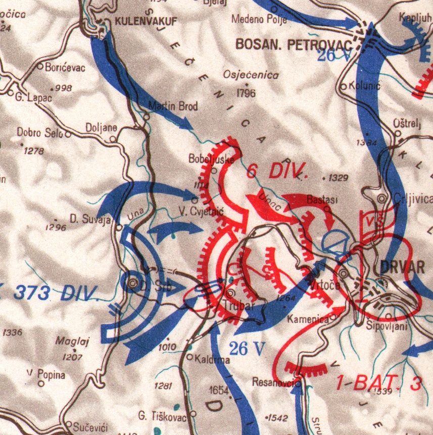 cropped map showing the deployment and lines of attack of Kampfgruppe Willam on 25 May 1944 during Operation Rösselsprung